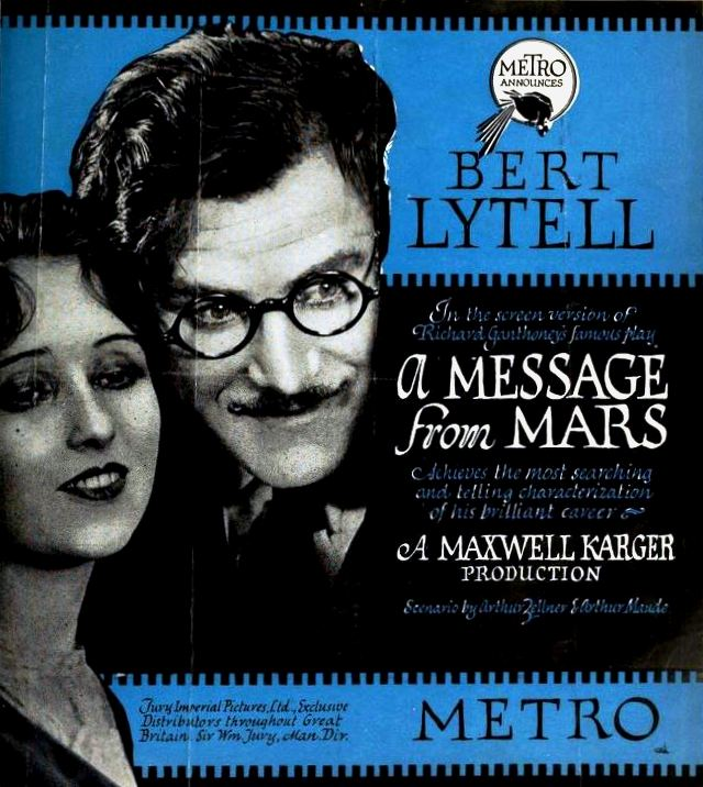 Ad for the American film A Message from Mars (1921) with Bert Lytell, on the cover of the March 13, 1921 Film Daily.